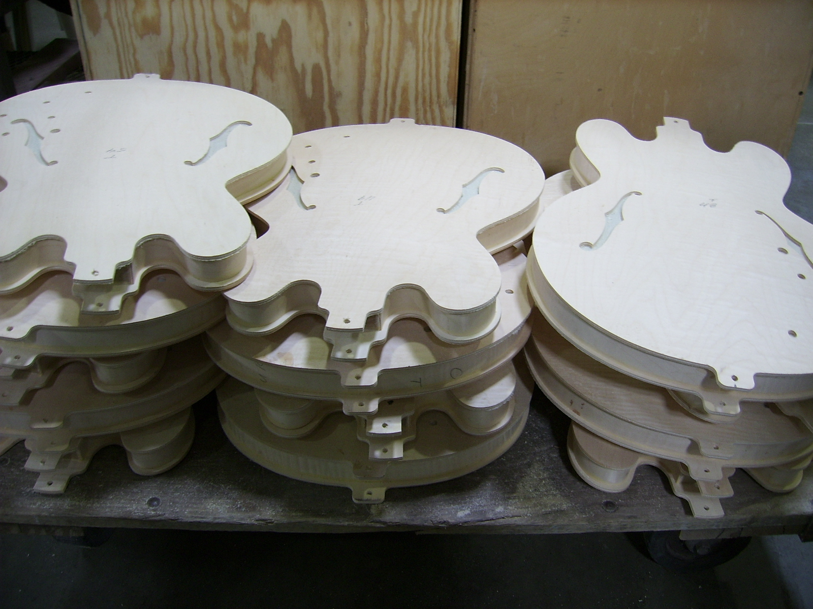 GMFT3-2 piles of semi-hollow bodies, in work in process